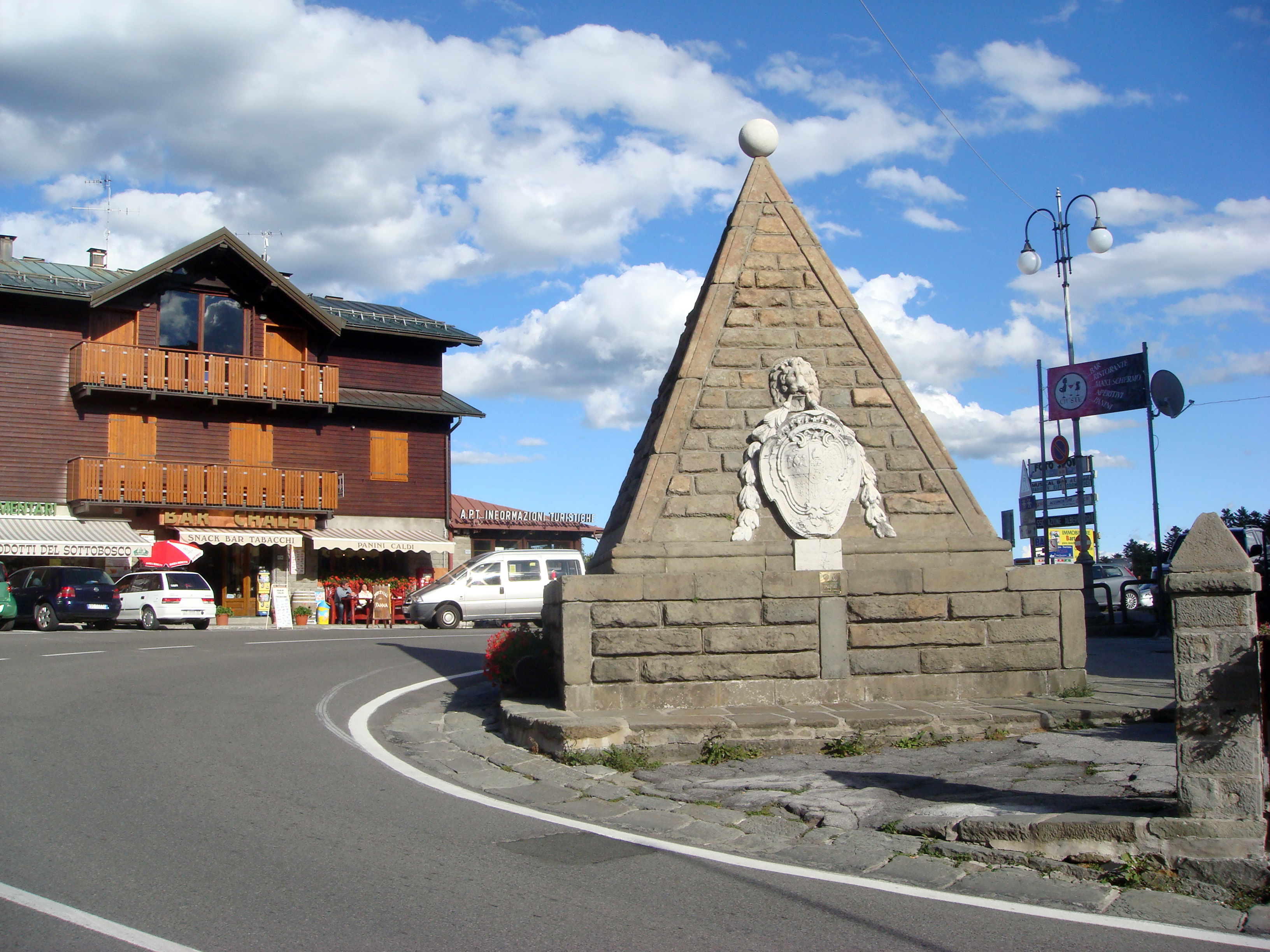 Pyramid monument on Abetone Pass